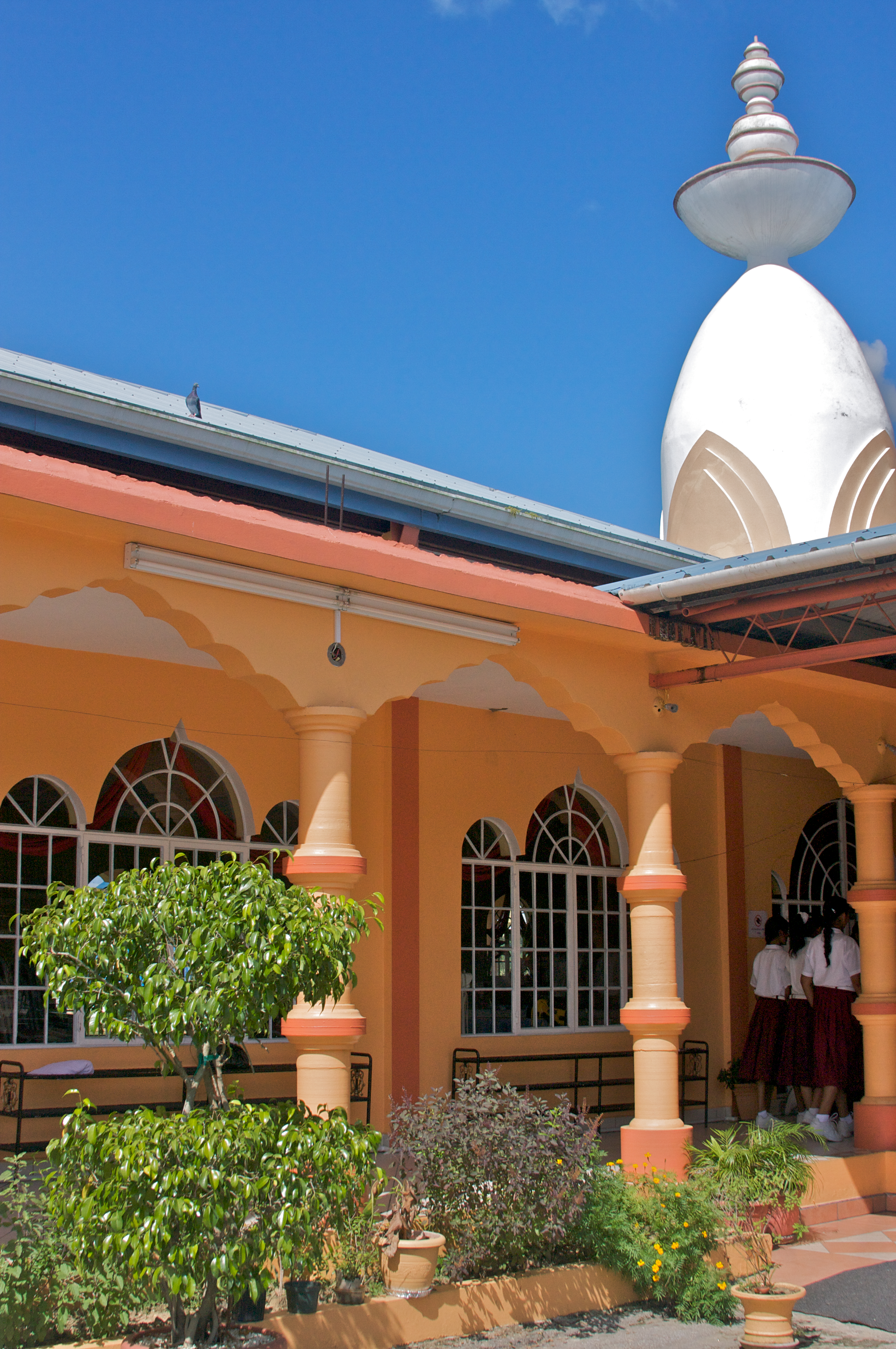 A temple in Trinidad & Tobago. Island nations, and mainland countries around the Caribbean sea experienced significant wave of migrants to sugar cane plantations. Over 2 million Indo-Caribbeans were brought to the Indies by British, French, Portuguese, Spanish and Dutch colonial powers. Many did not know where they were going. While some migrated willingly for opportunities to support their families, many were deceptively hired from mainland India. According to 19th and 20th century archives of the British government, these plantations had slave-like work conditions, and were persistently abused in these plantations. These Indentured Labourers, as they were then called, nevertheless retained their sense of culture, building temples and maintaining social life through festivals such as Dipavali. Over the generations, they mixed and mingled with migrants from other parts of the world, giving rise to unique syncretic culture, cuisines and language. Most Caribbean nations now have a small to significant proportion of Indo-Caribbeans.